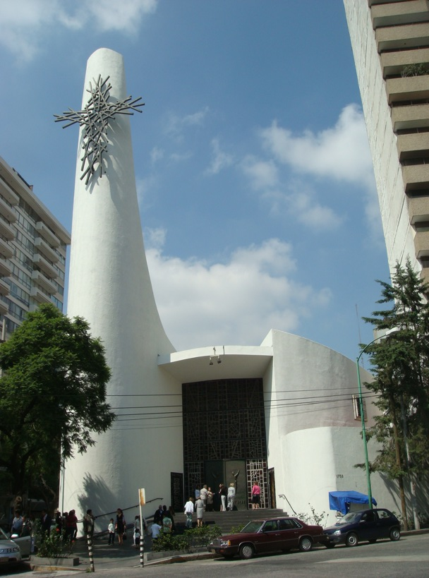 French Parish in Mexico City, by architects Enrique and Agustín Landa Verdugo, finished in 1967.